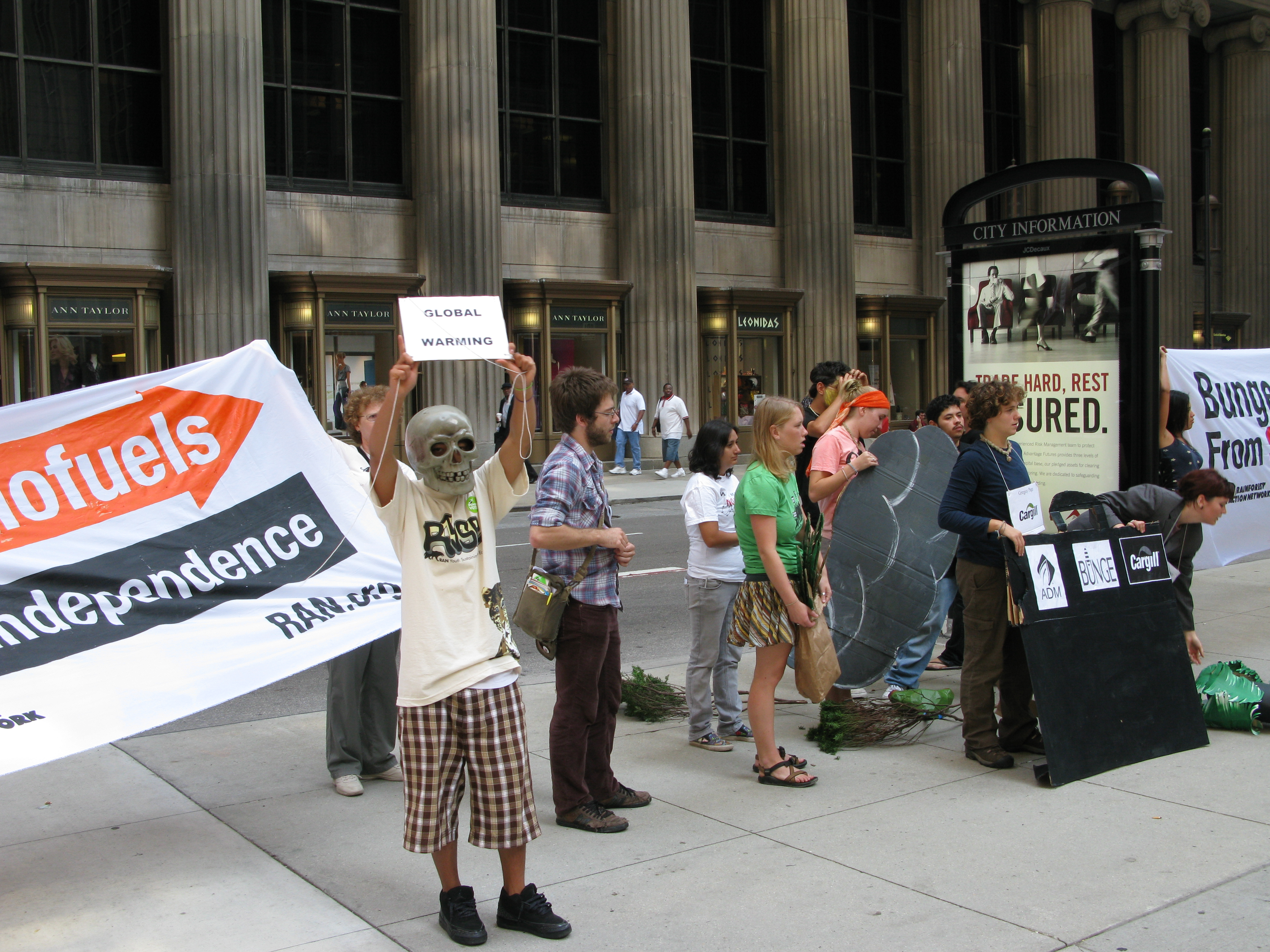 Rainforest Action Network activists, protesting the expansion of palm oil and soy plantations into critical ecosystems, near Chicago Board of Trade.